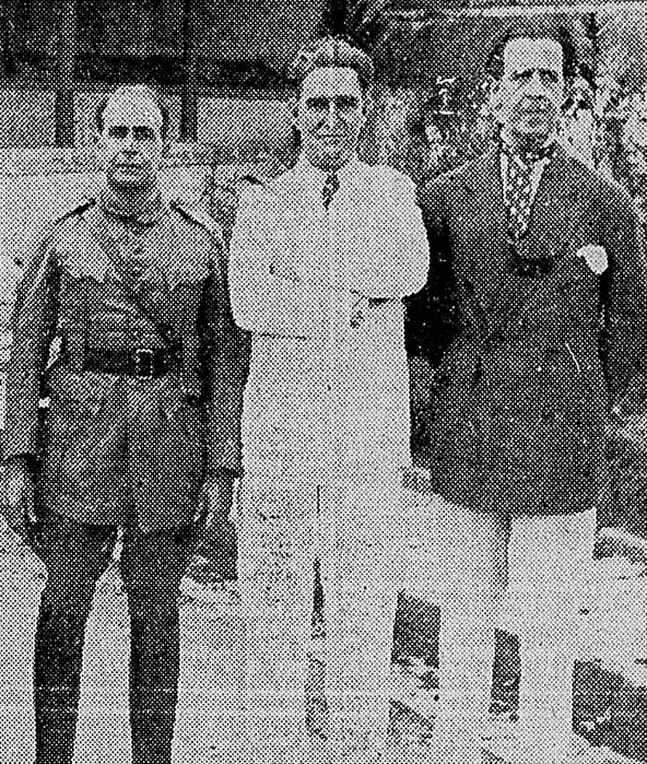 Colonel of the Public Force of São Paulo, Azarias Silva; The São Paulo civil police officer, Thirso Martins; and Ibrahim Nobre